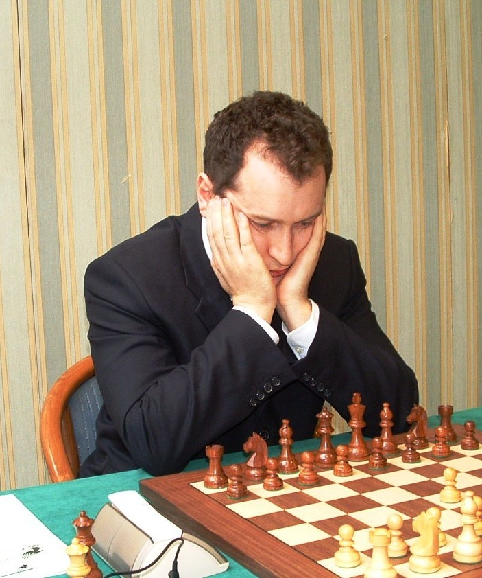 Photo of GM Konstantin Landa at Reggio Emilia tournament 2005/06